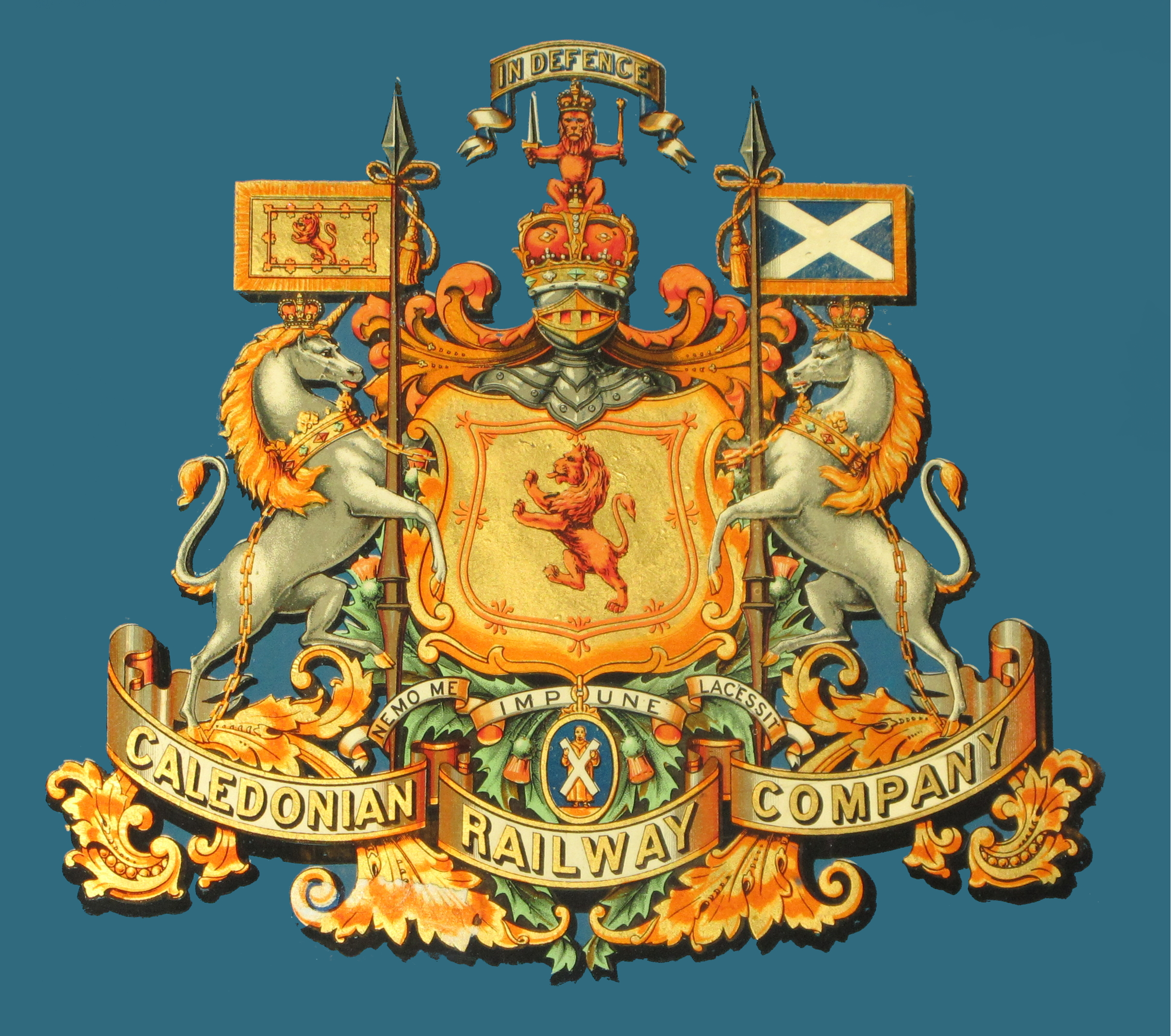 Coat of Arms of the Caledonian Railway